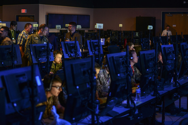 Participants from Exercise Coalition VIRTUAL FLAG 19-4 take part in the two-week exercise at Kirtland Air Force Base, N.M., Sept. 10, 2019. The exercise was set to train over 450 joint and coalition warfighters located at 23 sites and three different continents. (U.S. Air Force photo by Staff Sgt. Kimberly Nagle)